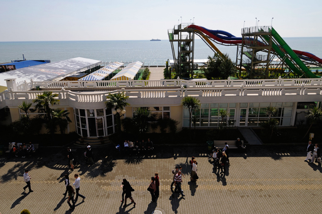 “The Sochi waterfront”. Tourists and city residents walking along the Sochi waterfront.